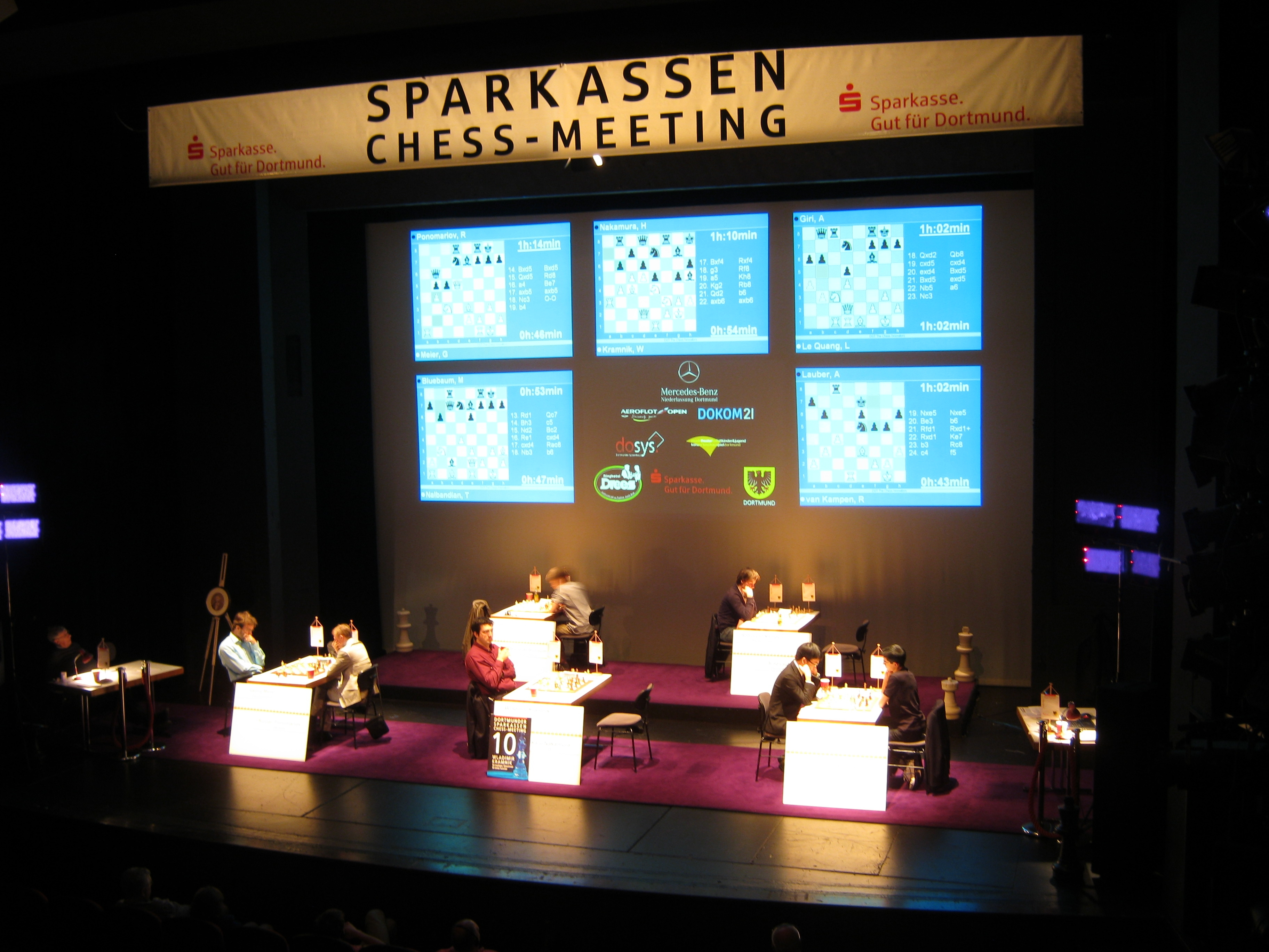 Chess Meetings Dortmund 2011, stage view